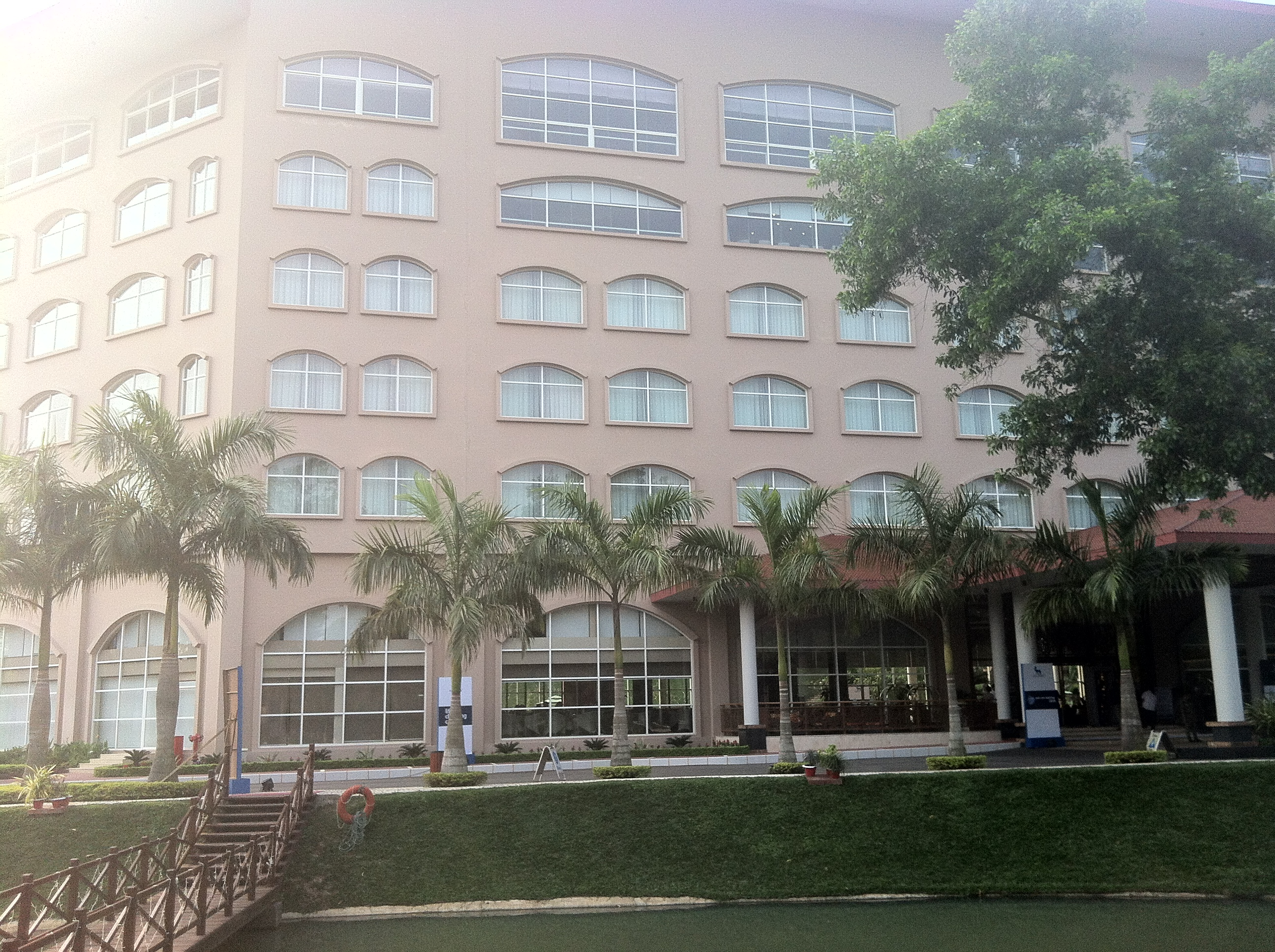 Grand Sultan 5 Star Hotel, Srimongol